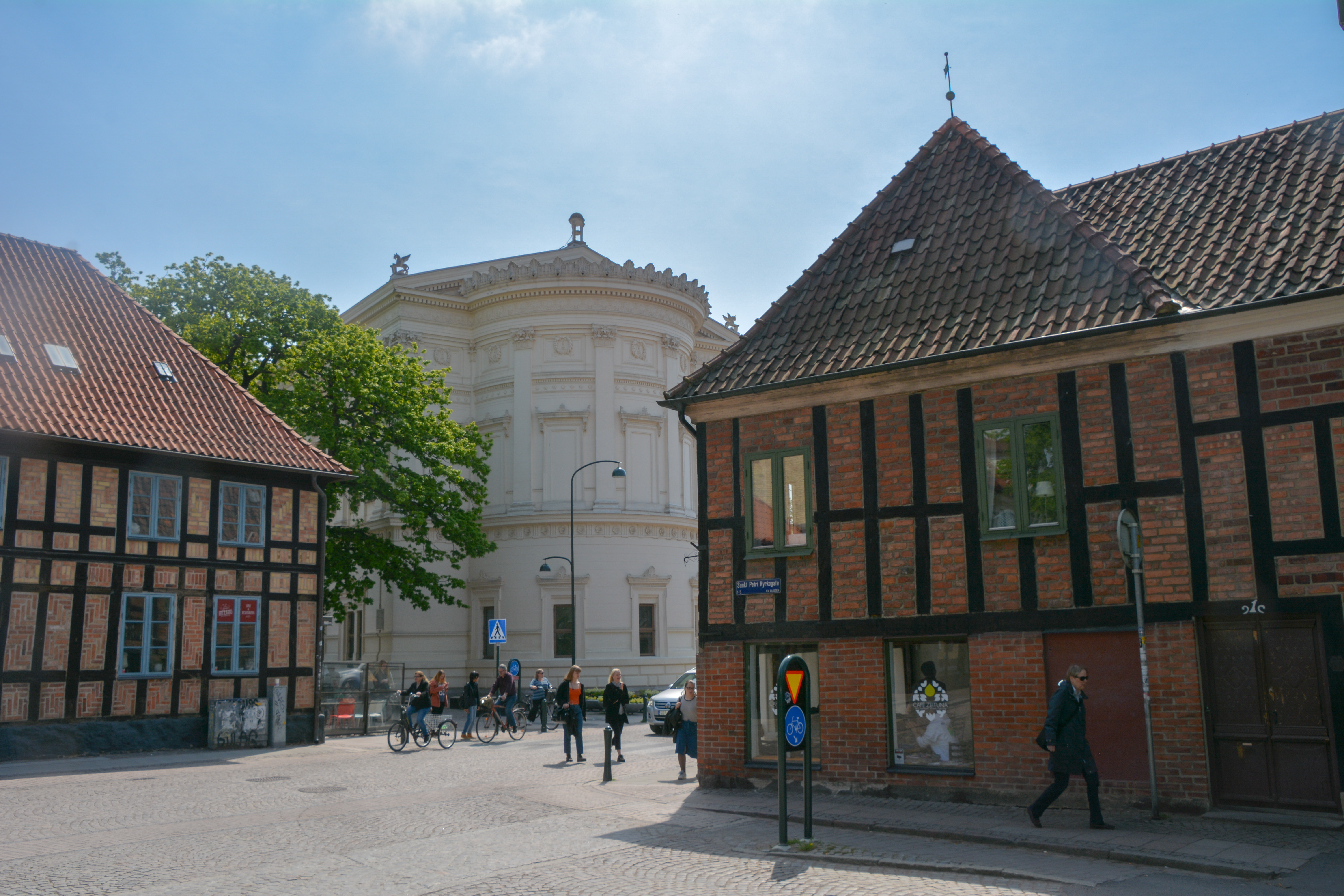 Cornet of Bredgatan and Sankt Petri kyrkogata, Lund. Wickmanska gården to the left, the Main University building in the middle and Bergmanska gården to the right.